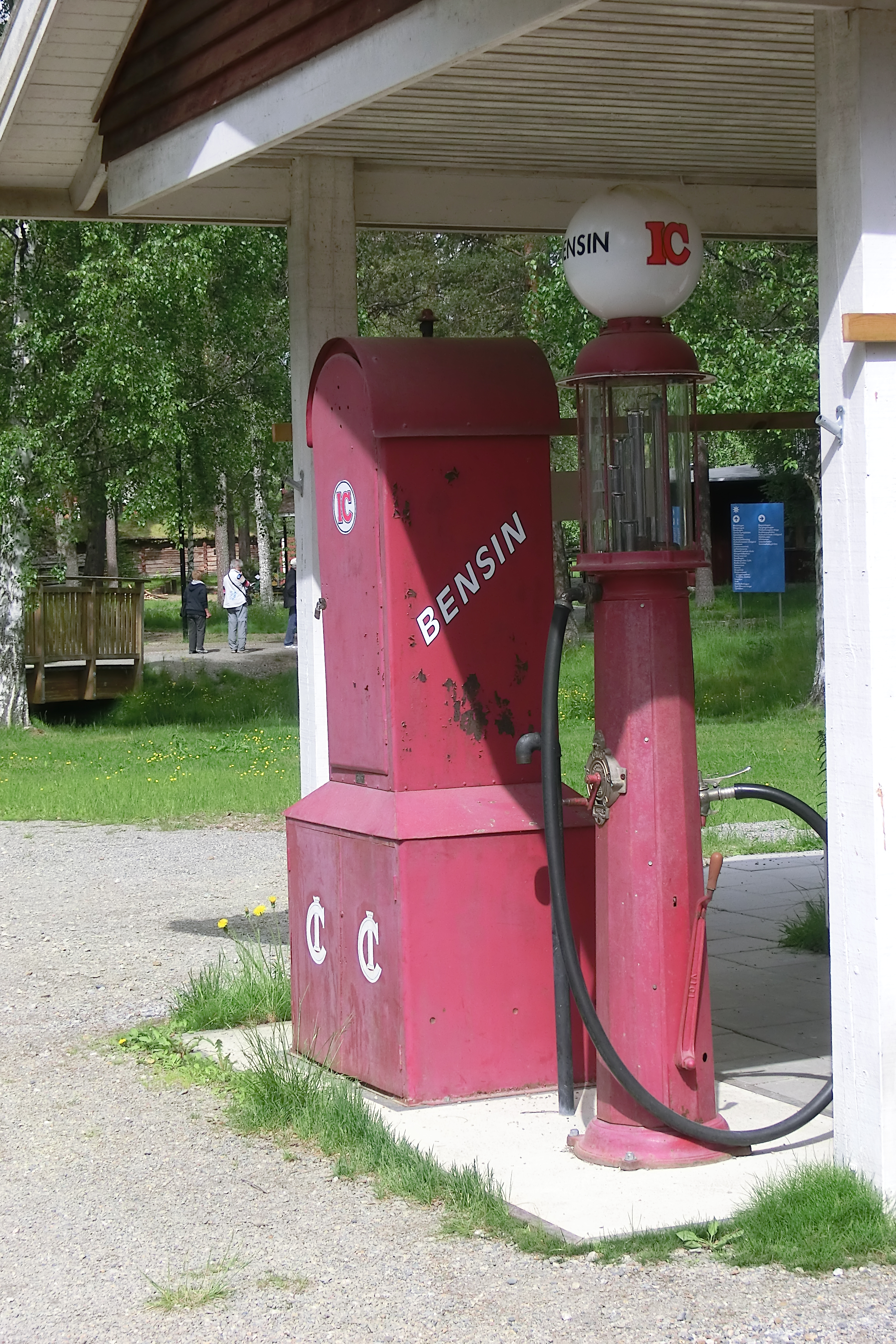 Gasoline-station at Gammplatsen, Lycksele, Sweden